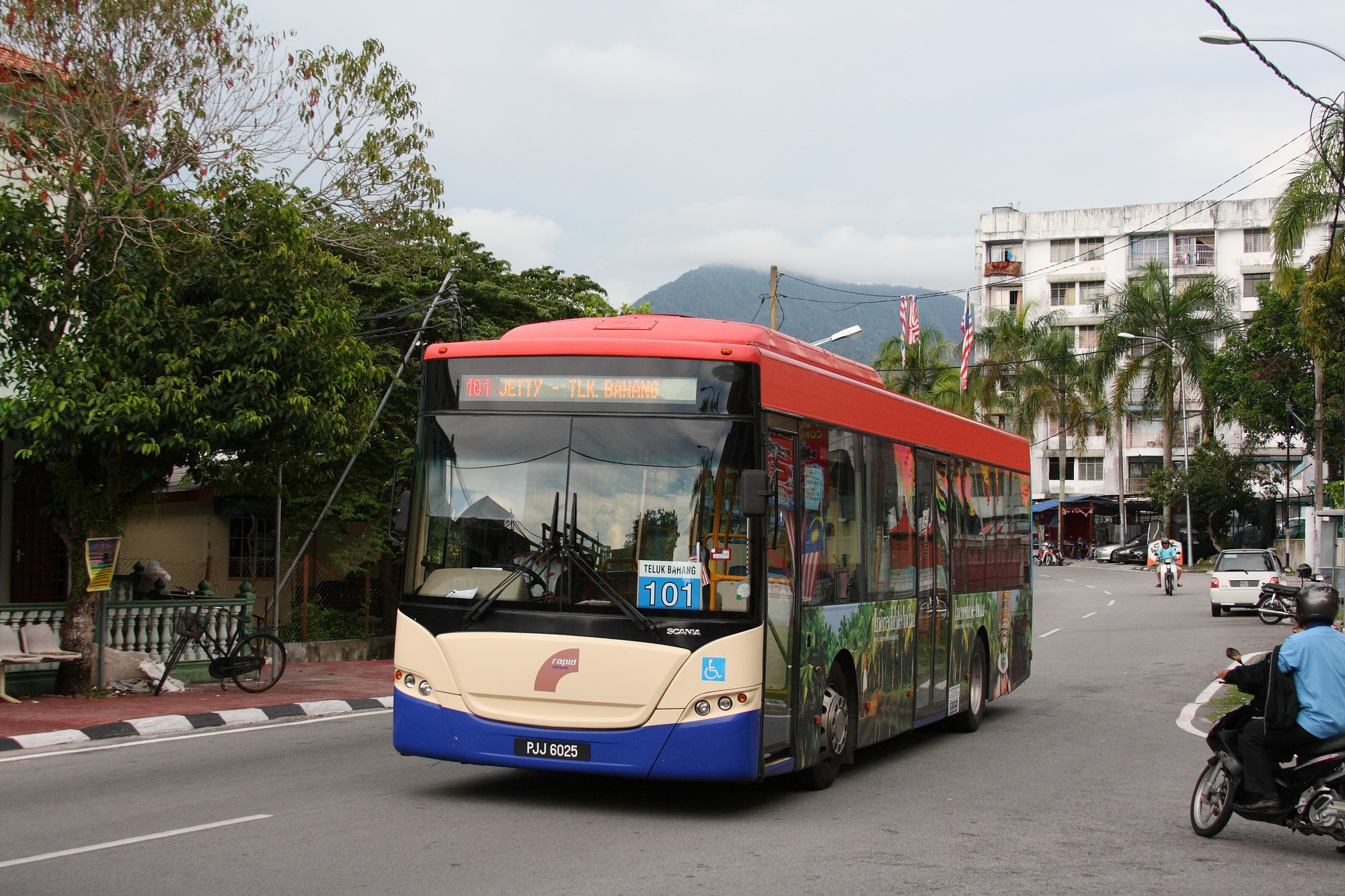 A Scania K270UB bus operated by RapidPenang in Penang, Malaysia.